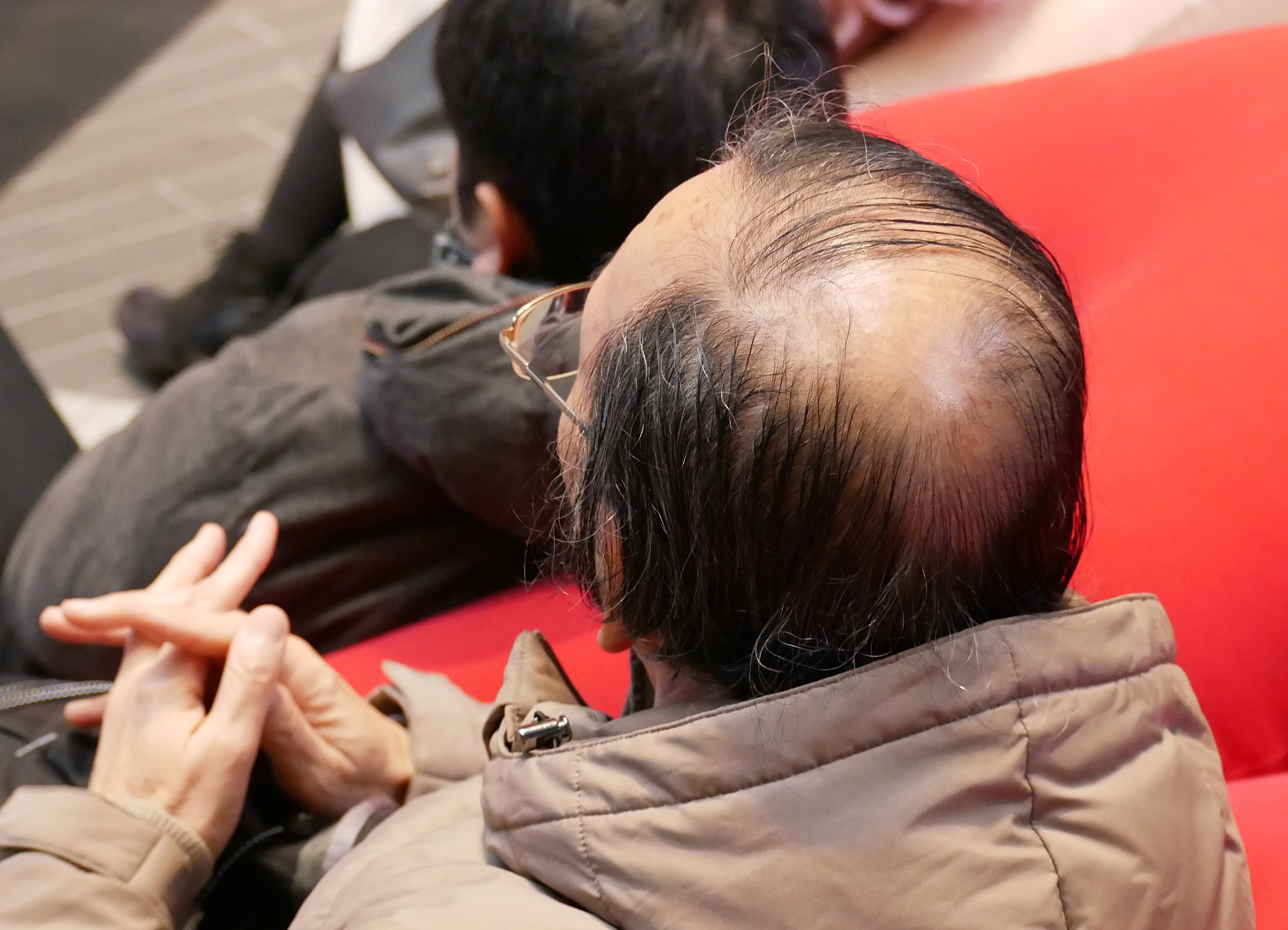 Man with a comb over (バーコード頭の男性)